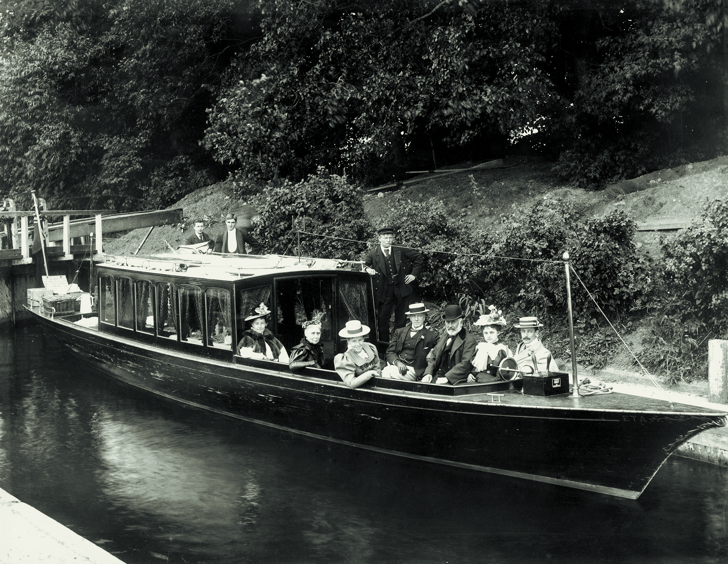 Frederick Layton with Henry Wallis, owner of the French Gallery in London, and group on the River Thames at Eton, ca. 1897.